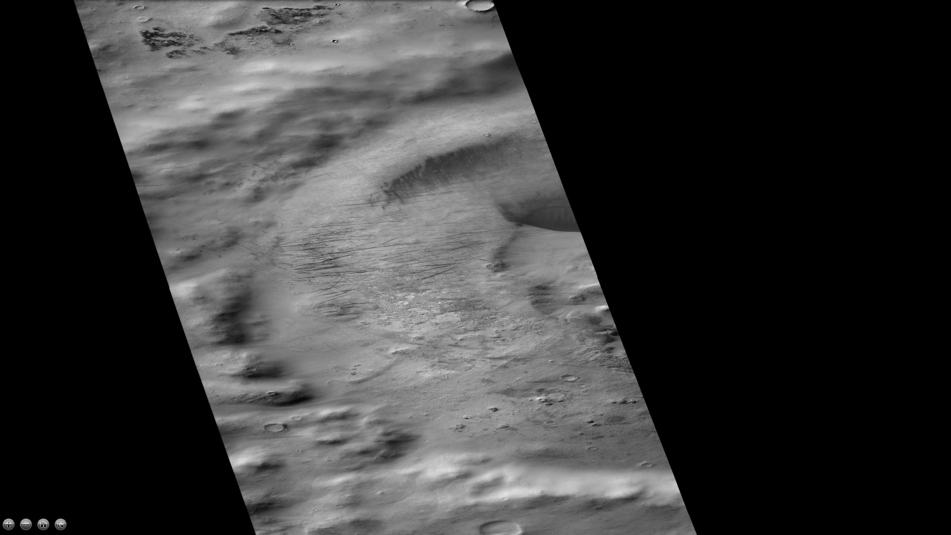 Smith Crater, as seen by ctx